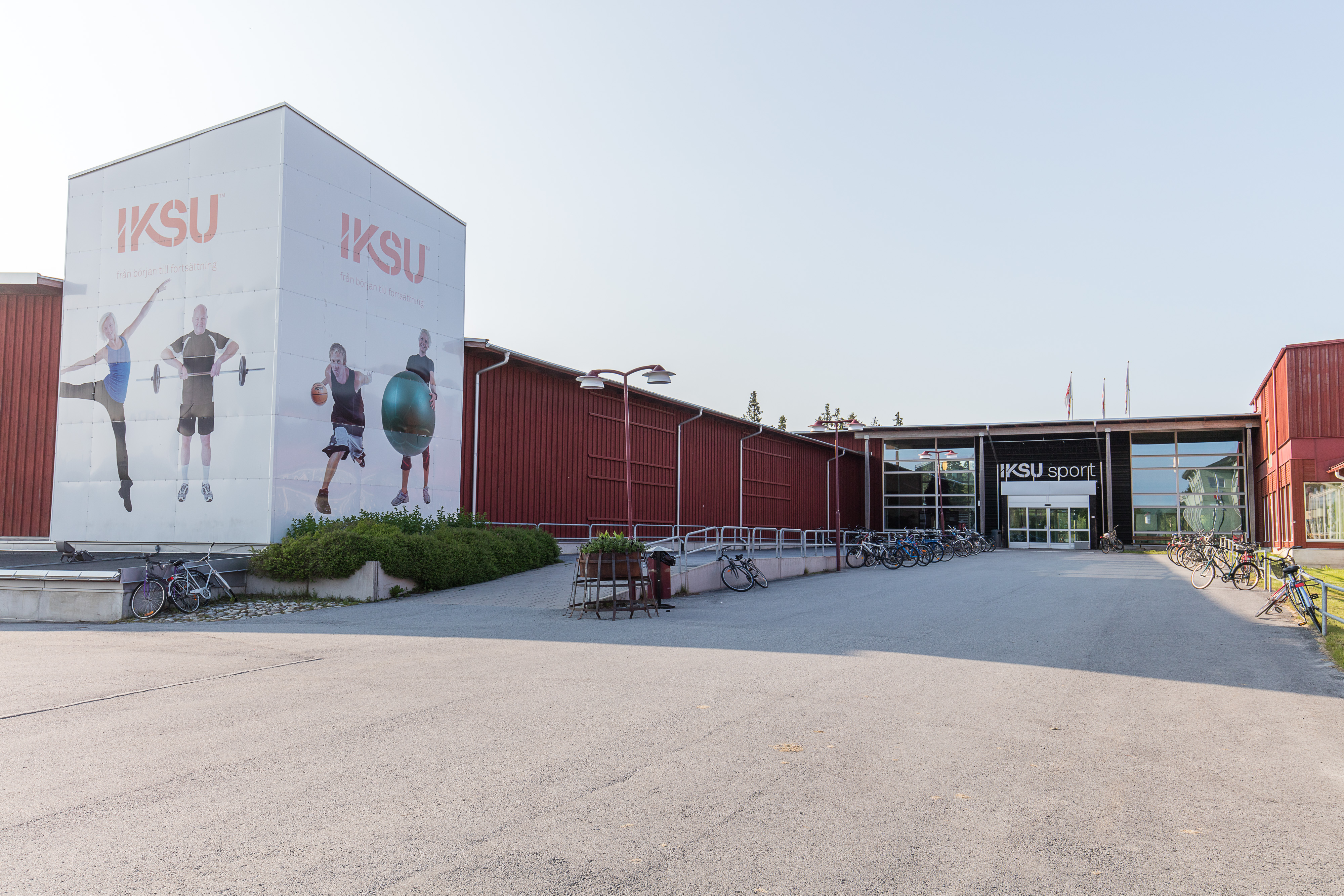 Iksu Sport at Umeå University campus is one of the biggest sports facilities in Europe.